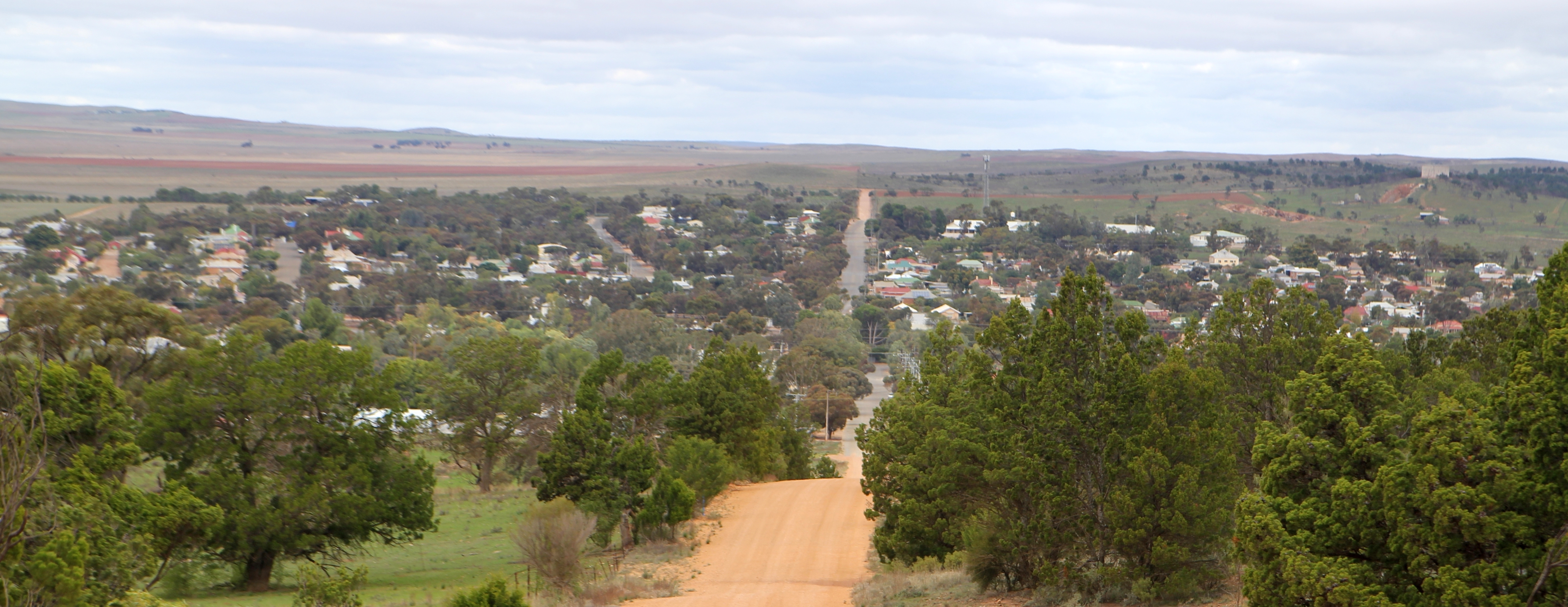 View over Peterborough, South Australia, as seen from the lookout within Greg Duggan Nature Reserve at the end of Government Road.